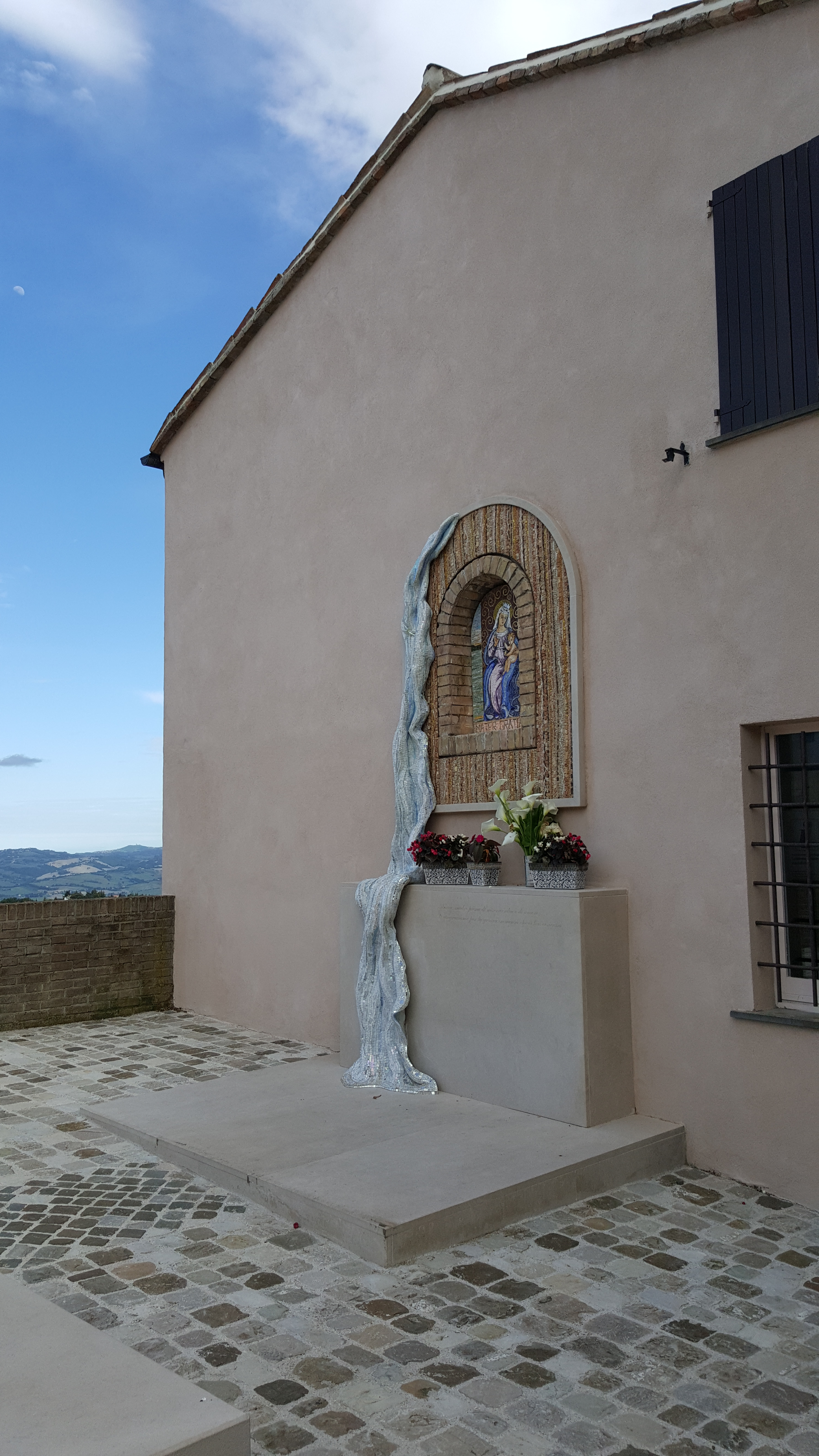 This is a photo of a monument which is part of cultural heritage of Italy.